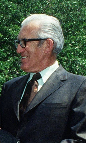 Edgar J. "Ed" Herschler (1918-1990), Governor of Wyoming (1975-1987), at Francis E. Warren Air Force Base in 1977.